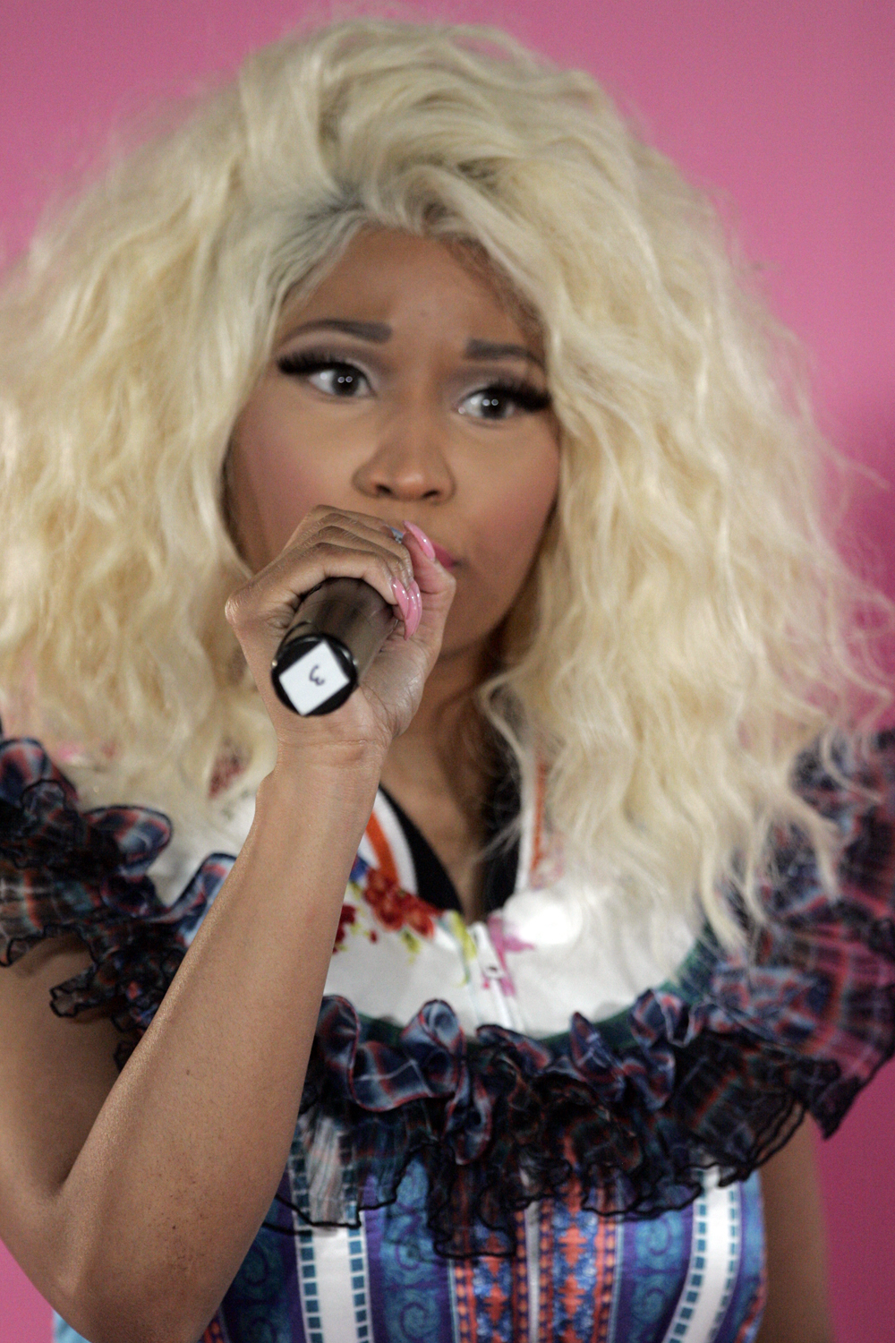 Performing artist Nicki Minaj launches 'Pink Friday' perfume - Sydney, Australia; Myer City store...